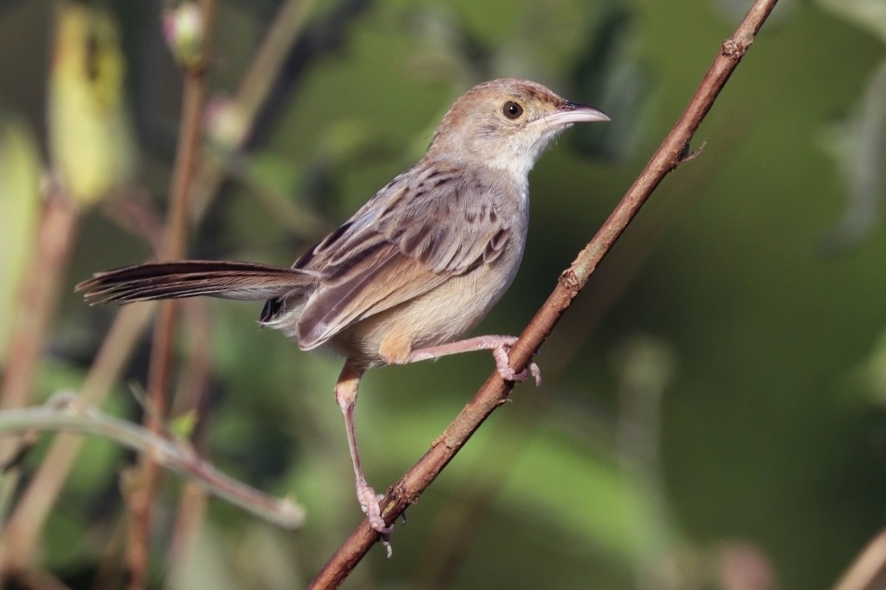 Rattling cisticola (Cisticola chiniana smithersi), Matetsi Safari Area, Zimbabwe